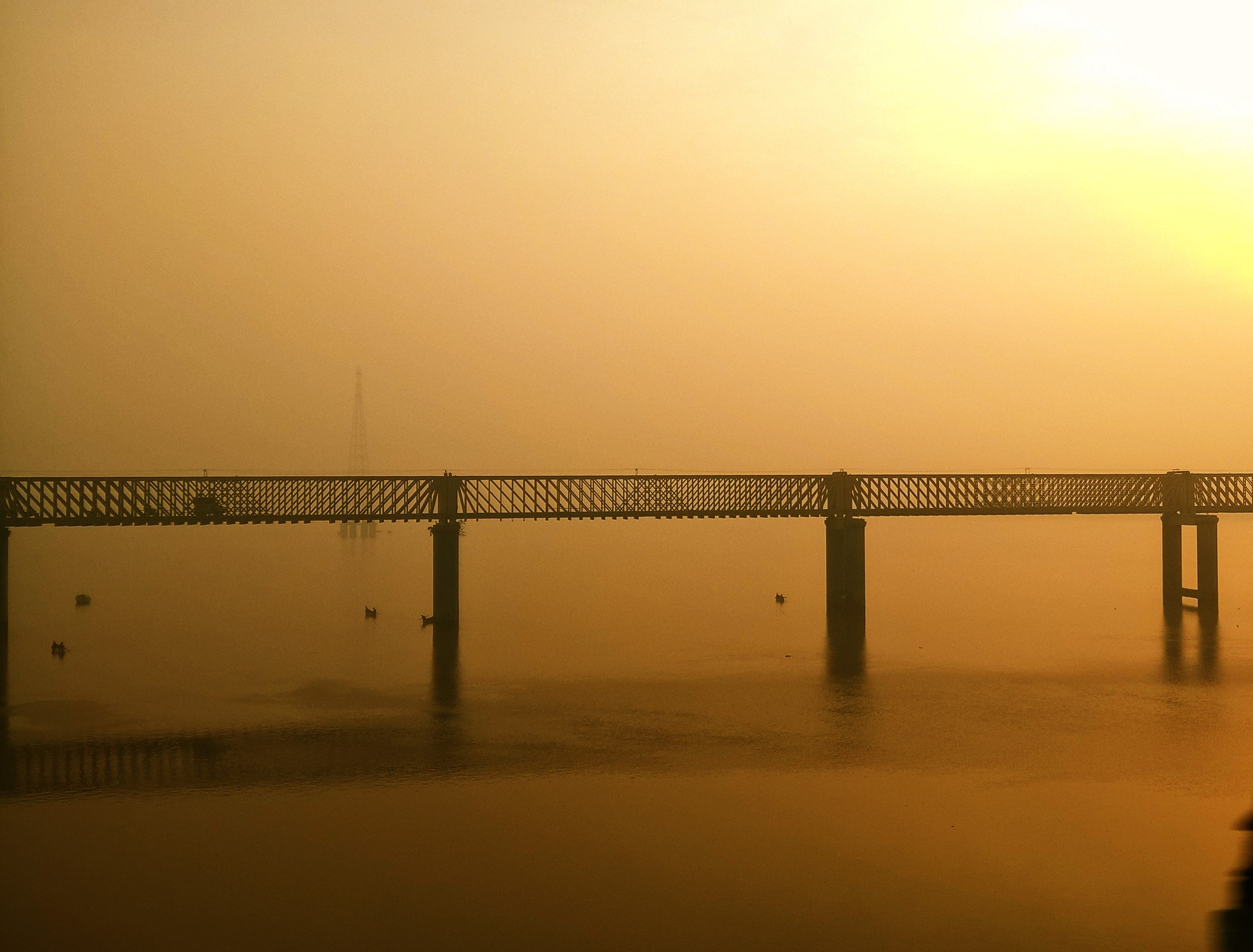 This photo has been taken from the railway bridge just next to Golden bridge (in Photo). Golden bridge was built by Britishers a long time ago on river Narmada. It is still in use.